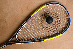 Vlástní foto